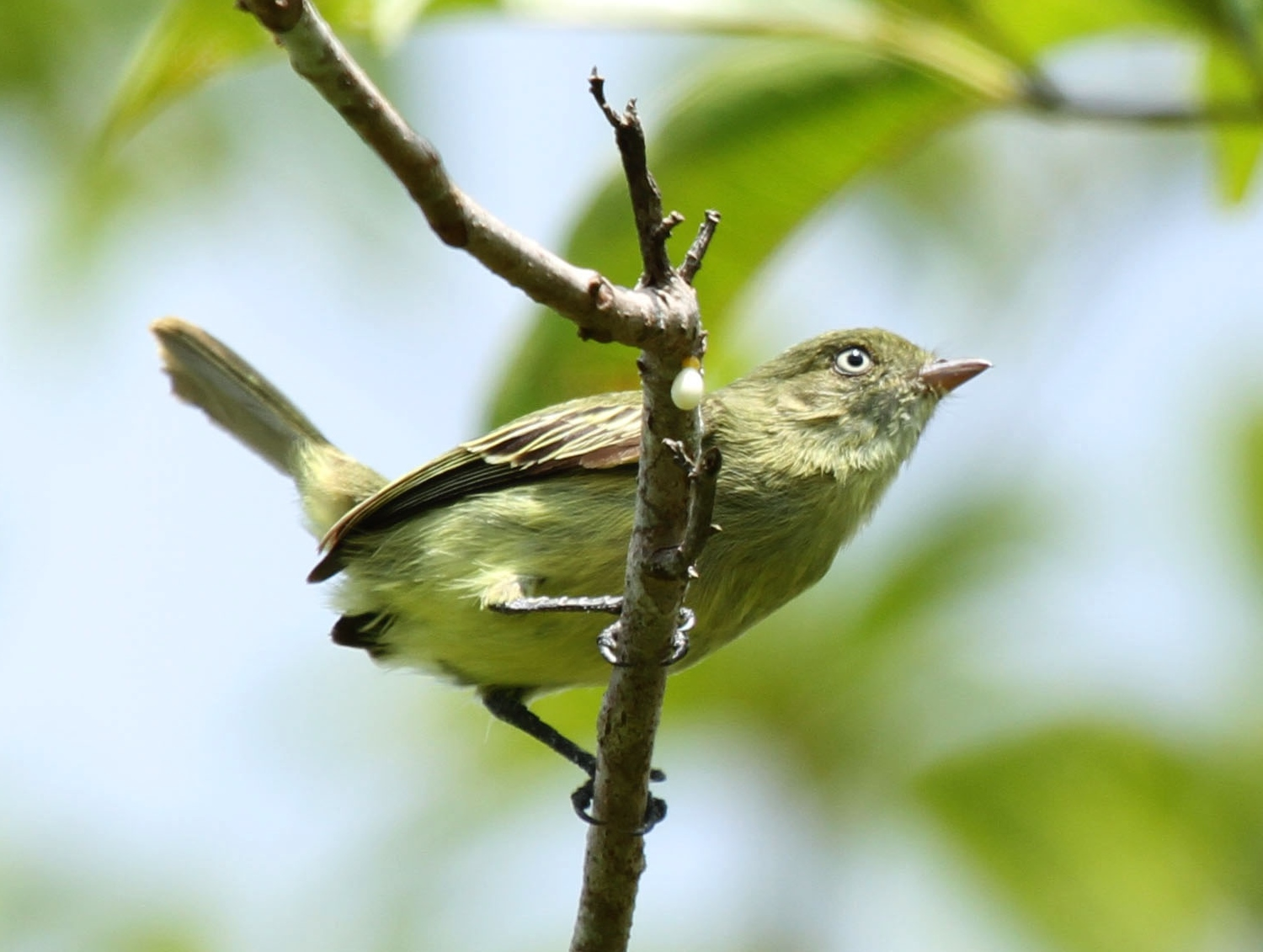 Chico's Tyrannulet at Humaitá - Amazonas - Brazil